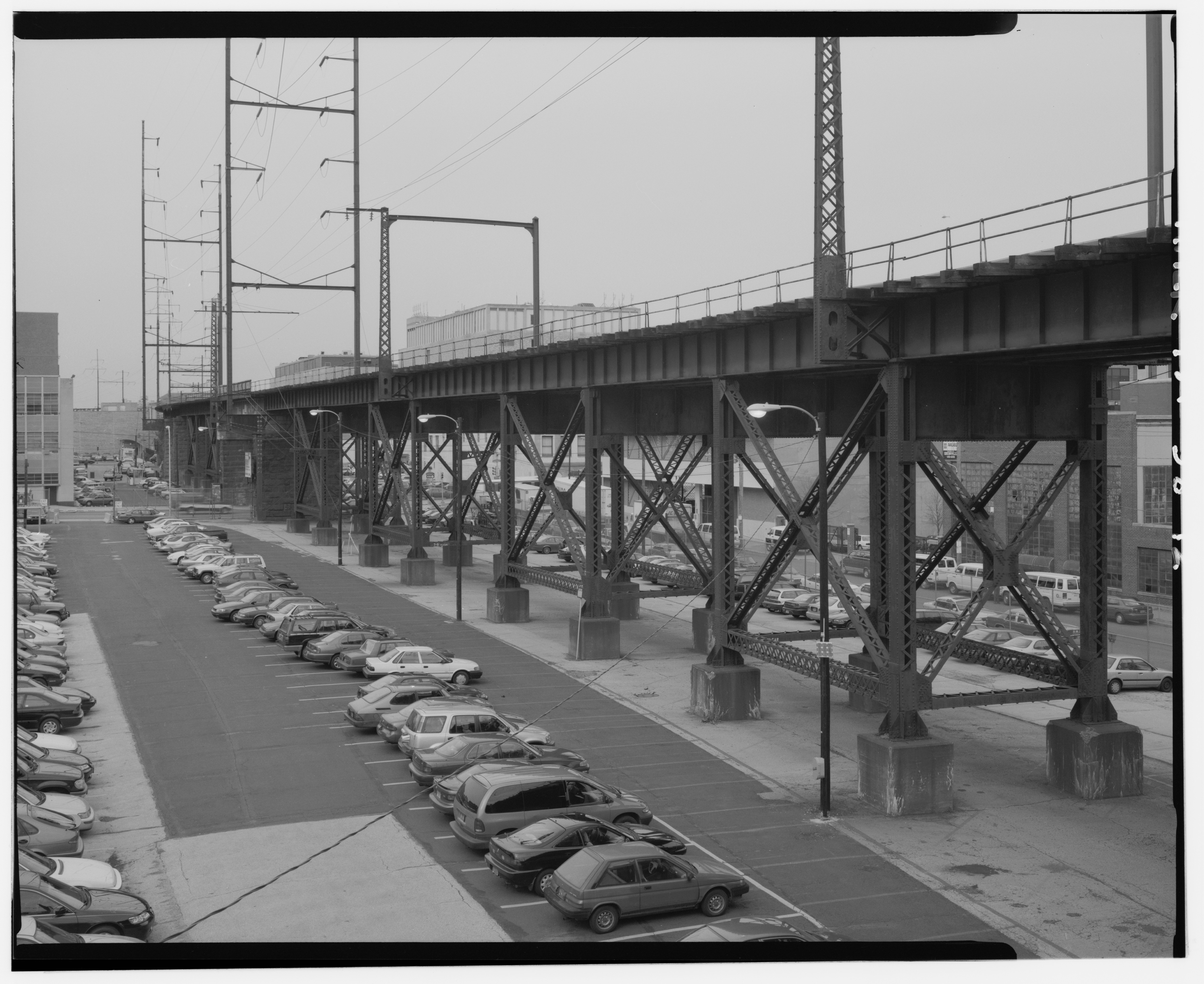 The West Philadelphia Elevated in Philadelphia, Pennsylvania near Walnut Street, looking north.